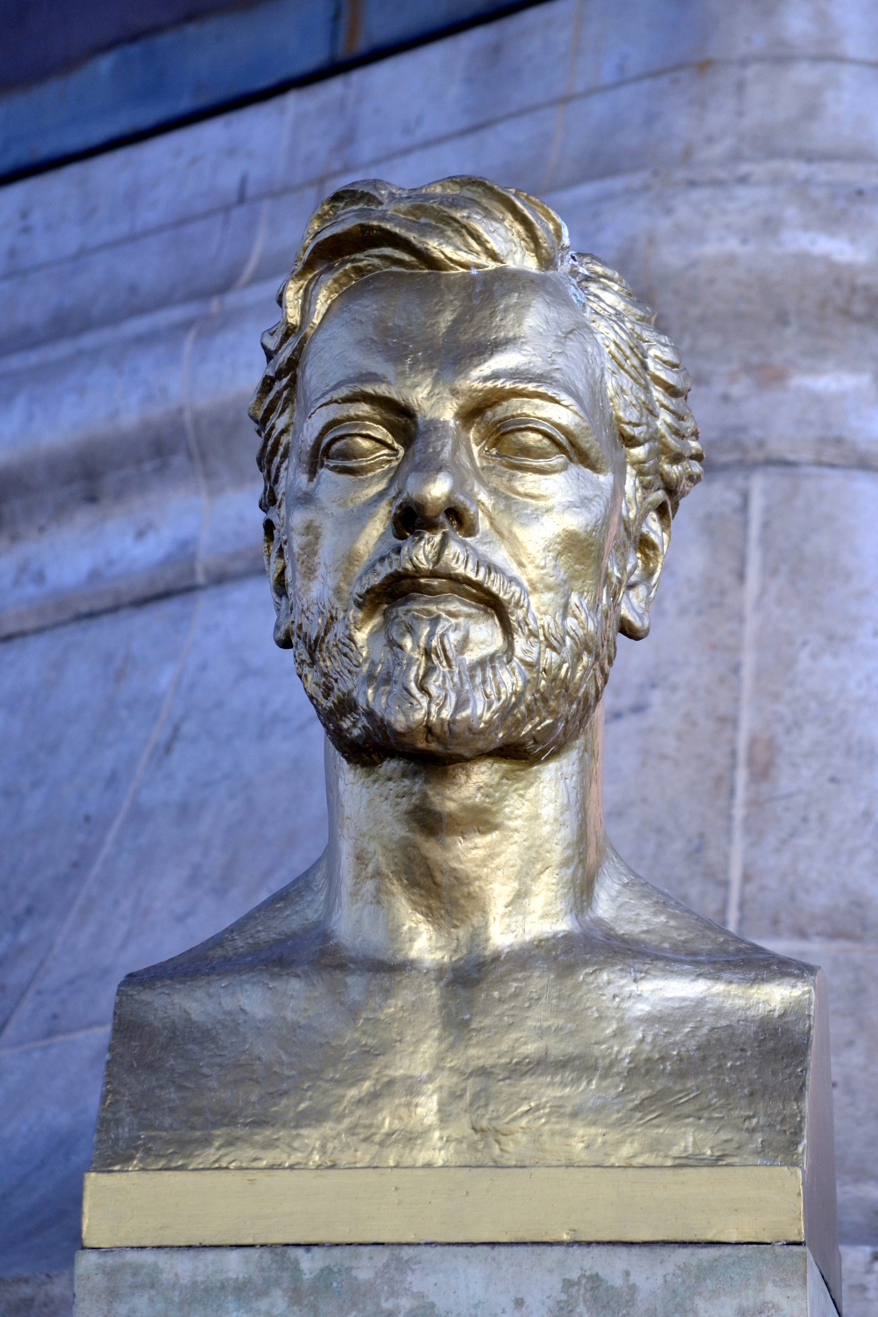 Bust of Gustave Eiffel by Antoine Bourdelle